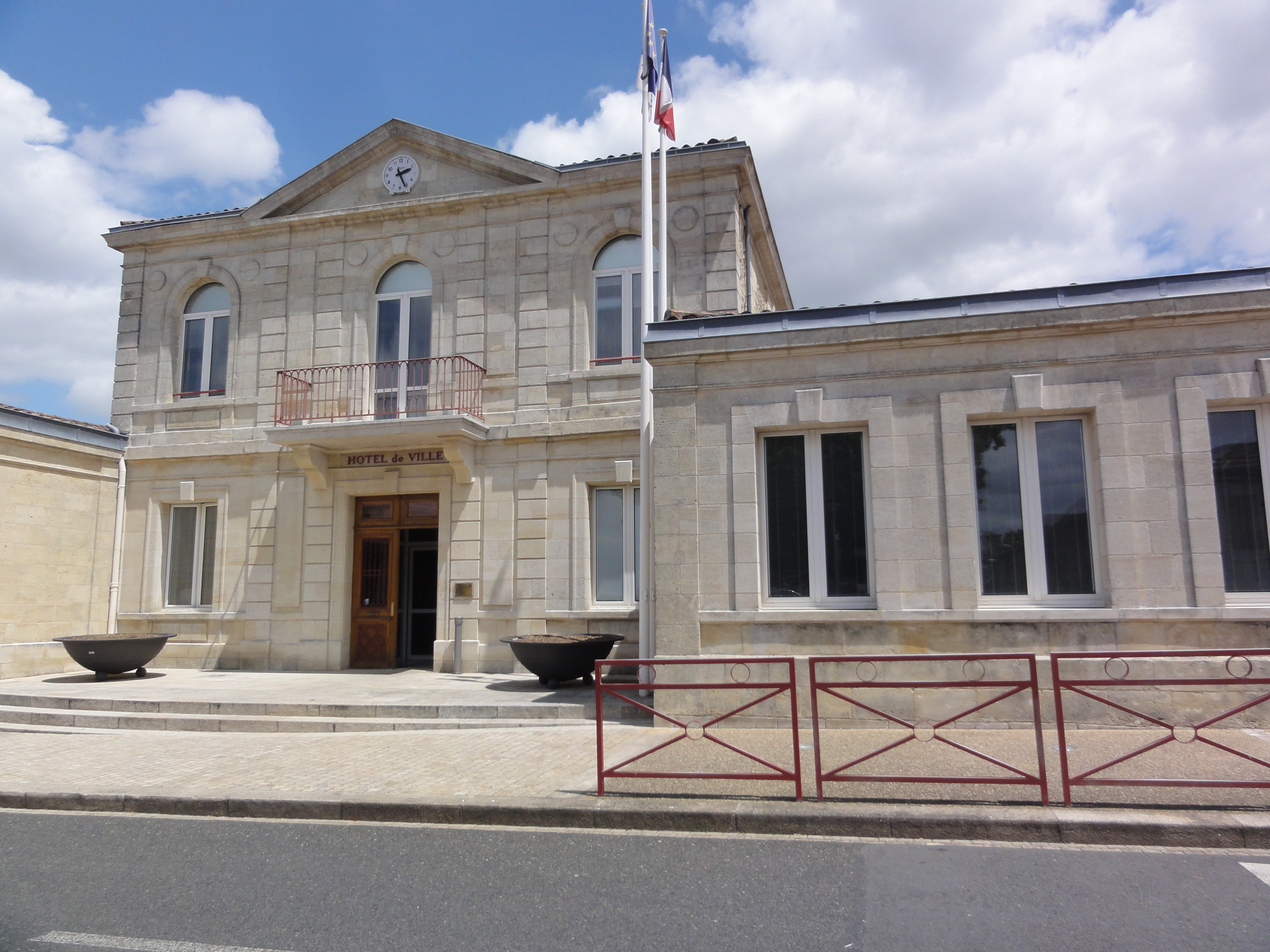 Bassens (Gironde) Hôtel-de-ville